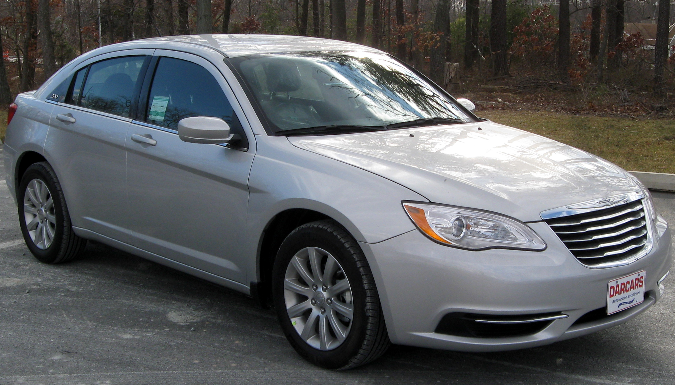 2011 Chrysler 200 photographed in Silver Spring, Maryland, USA.